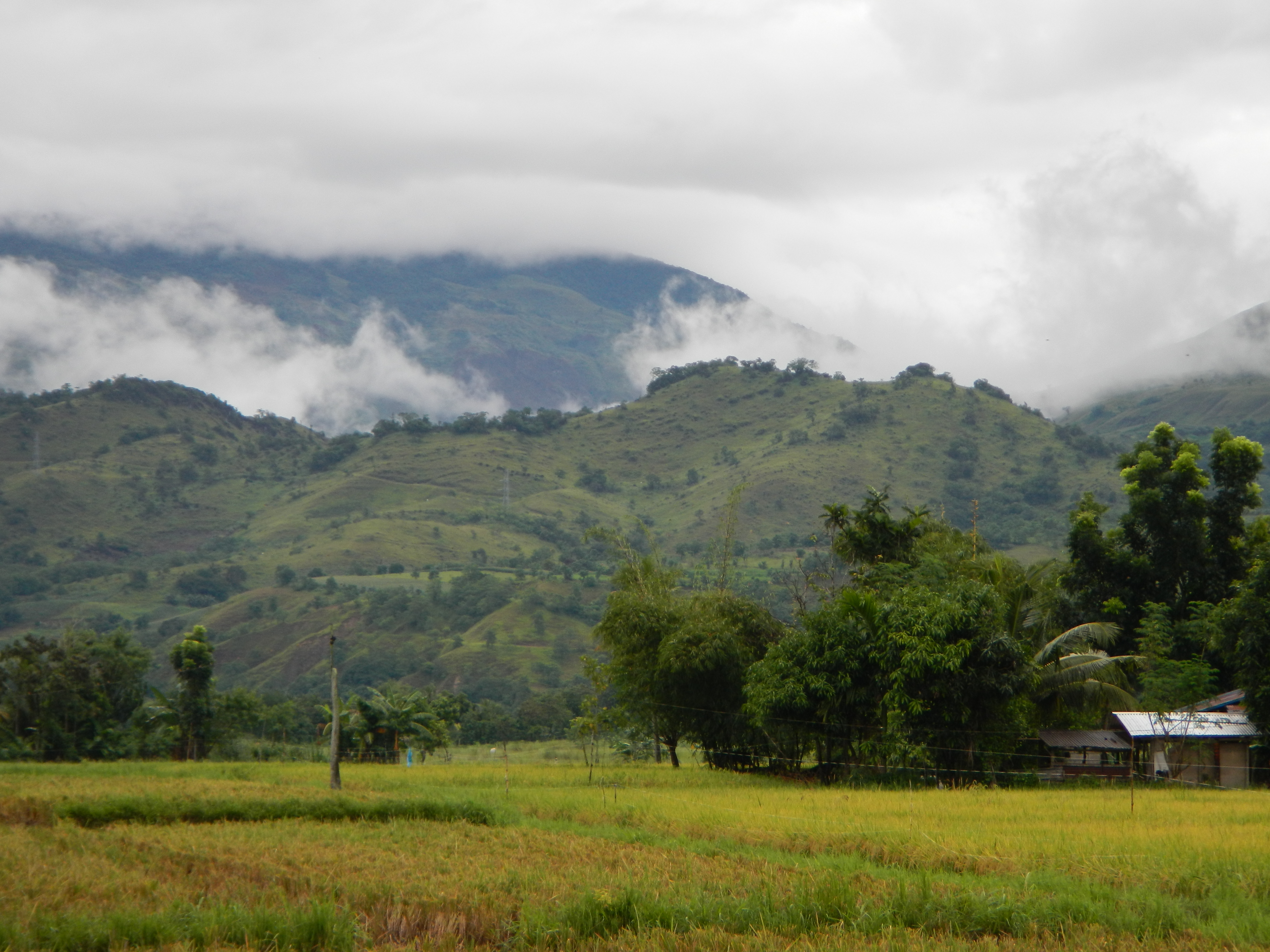 UploadWizard photos of Scenery (golden ricefields, blue mountains) of Purok 2, Boyie St. cor. Butay St., Riverside, Barangay Homestead (Urban), [1] [2] --- Bambang, Nueva Vizcaya[3] Bambang is a 1st class municipality in the province of Nueva Vizcaya, [4] Philippines with a (2010 census) population of 47,657 people in 8,742 households, politically subdivided into 25 barangays: [5] Coordinates: 16°23'30"N 121°7'28"E 2013 Elections It's main schools are Eastern Luzon Colleges[6] Coordinates: 16°22'27"N 121°6'16"E Website by Reverend Kwon, Young Soo, Korean Missionary, came to the Philippines in 1991 & Saint Catherine's School, Purok 1 Macate, Bambang Nueva Vizcaya [7] Coordinates: 16°23'4"N 121°6'15"E inter alial. (Note: Rainy weather photography due Low pressure[8]